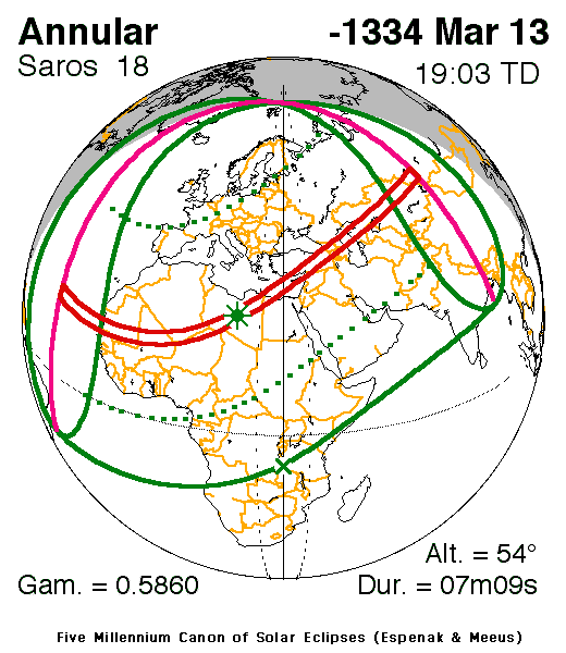 Solar eclipse map of path on earth. Solar eclipse of March 13, 1335 BC